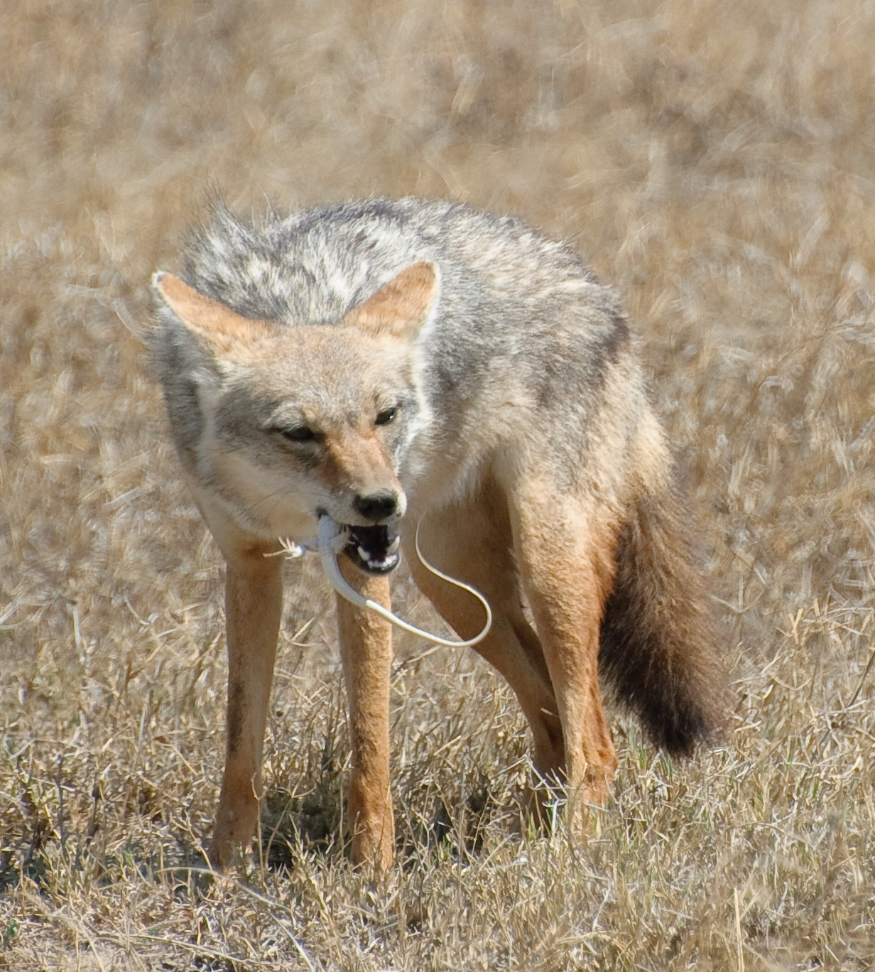 Golden jackal eating agama, Serengeti, Tanzania.